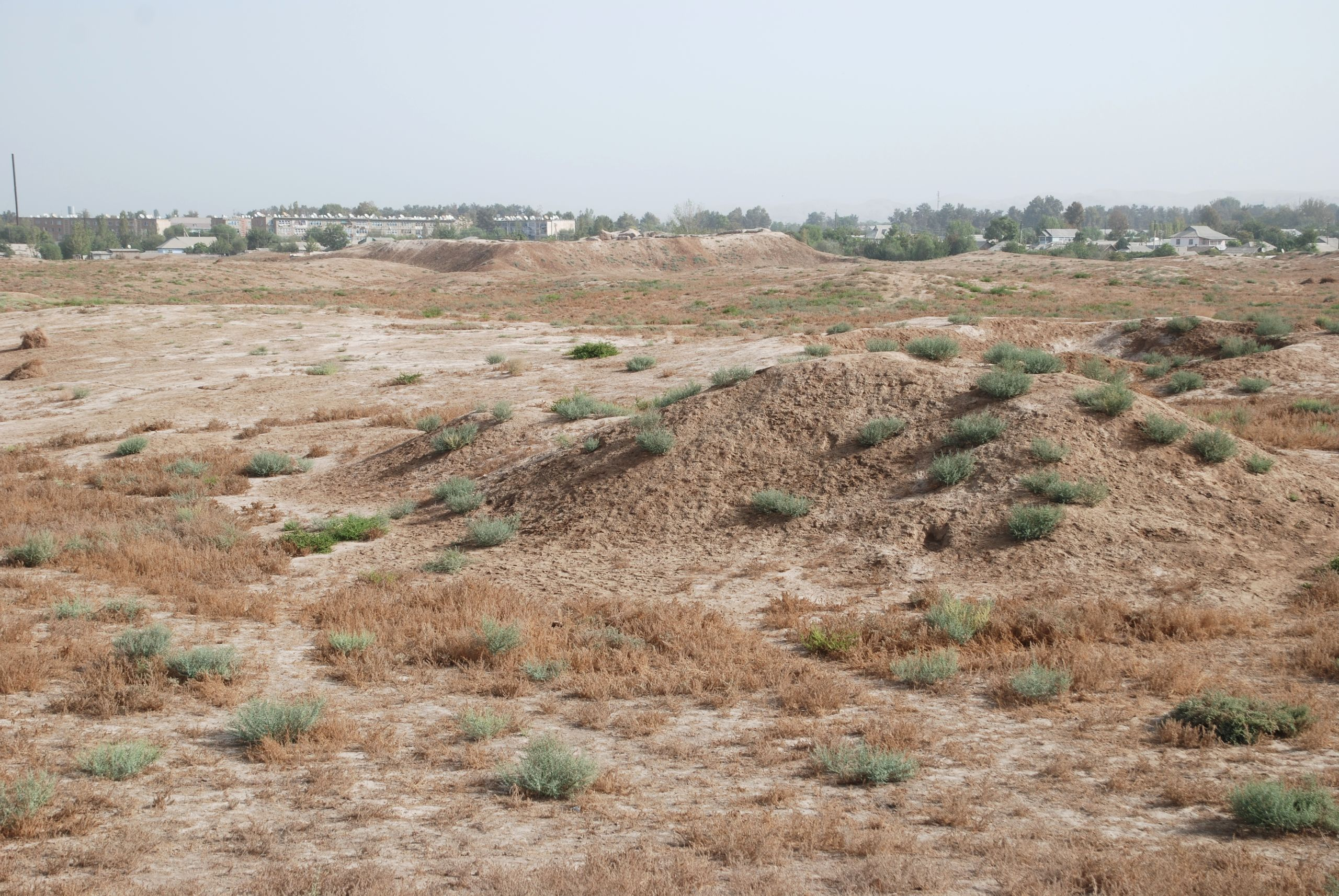 Kafyr Kala, city, Kolkhozobod